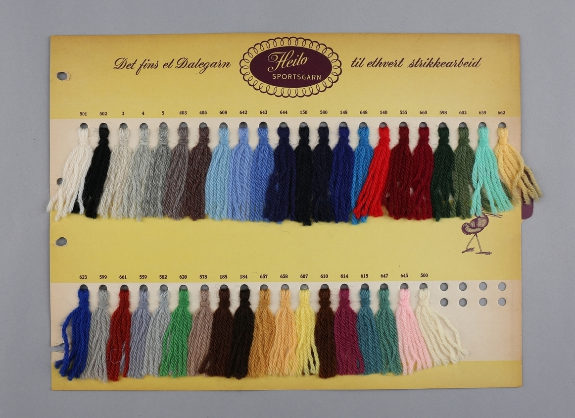 Yarn samples from Dale Garn, Norway (object no. NTMT.08843, The Norwegian Knitting Industry Museum).